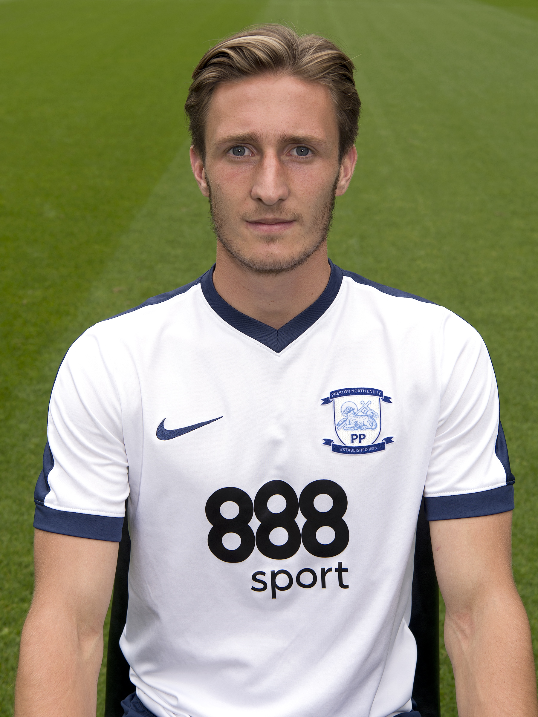 Ben Davies in Preston North End F.C. kit, 2016